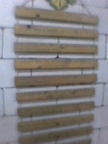 Signs with the Scout Law